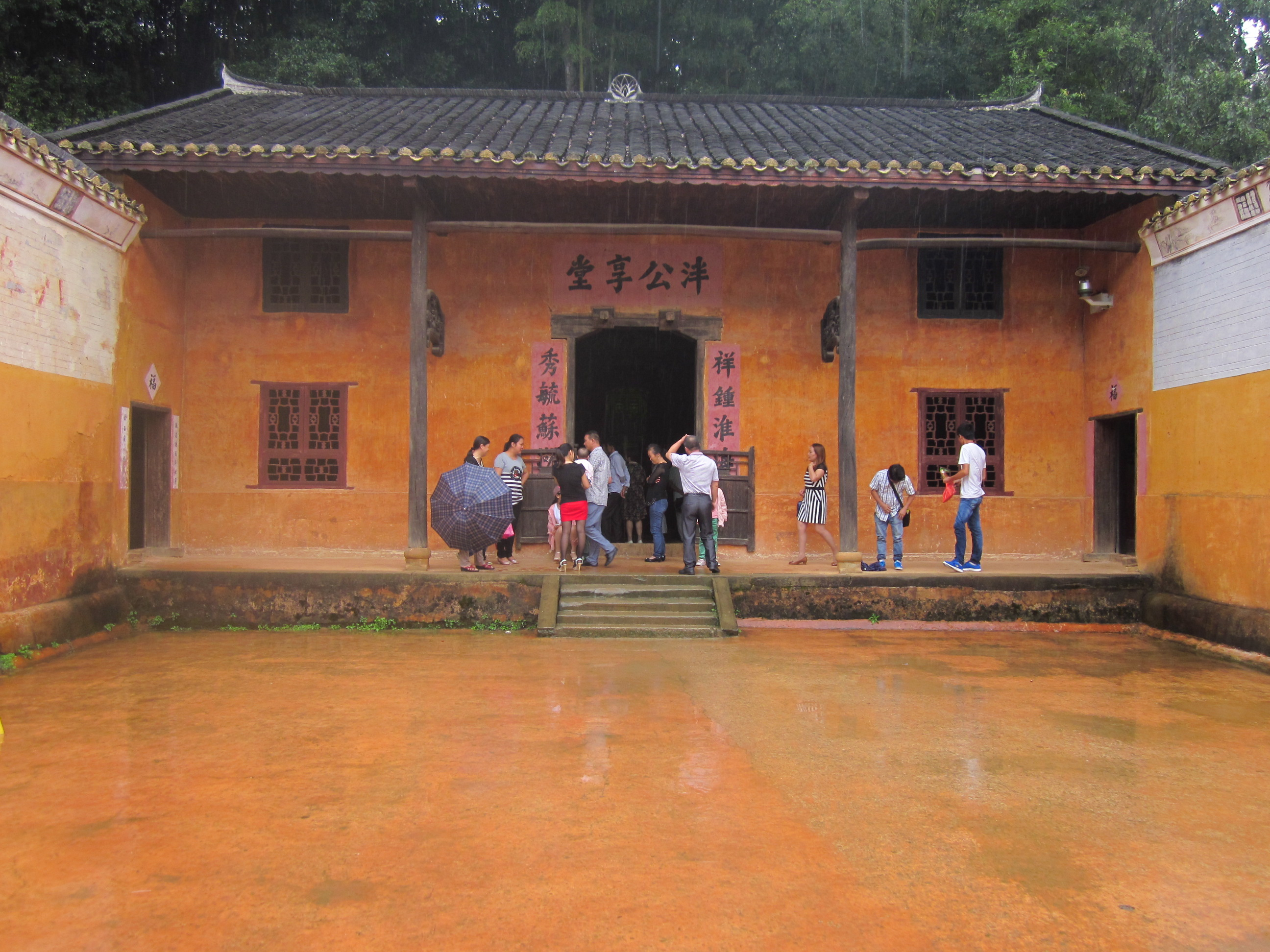 Hu Yaobang's Former Residence (Chinese: 胡耀邦故居), located in Liuyang City, Hunan Province, is one of the famous tourist attractions in China.